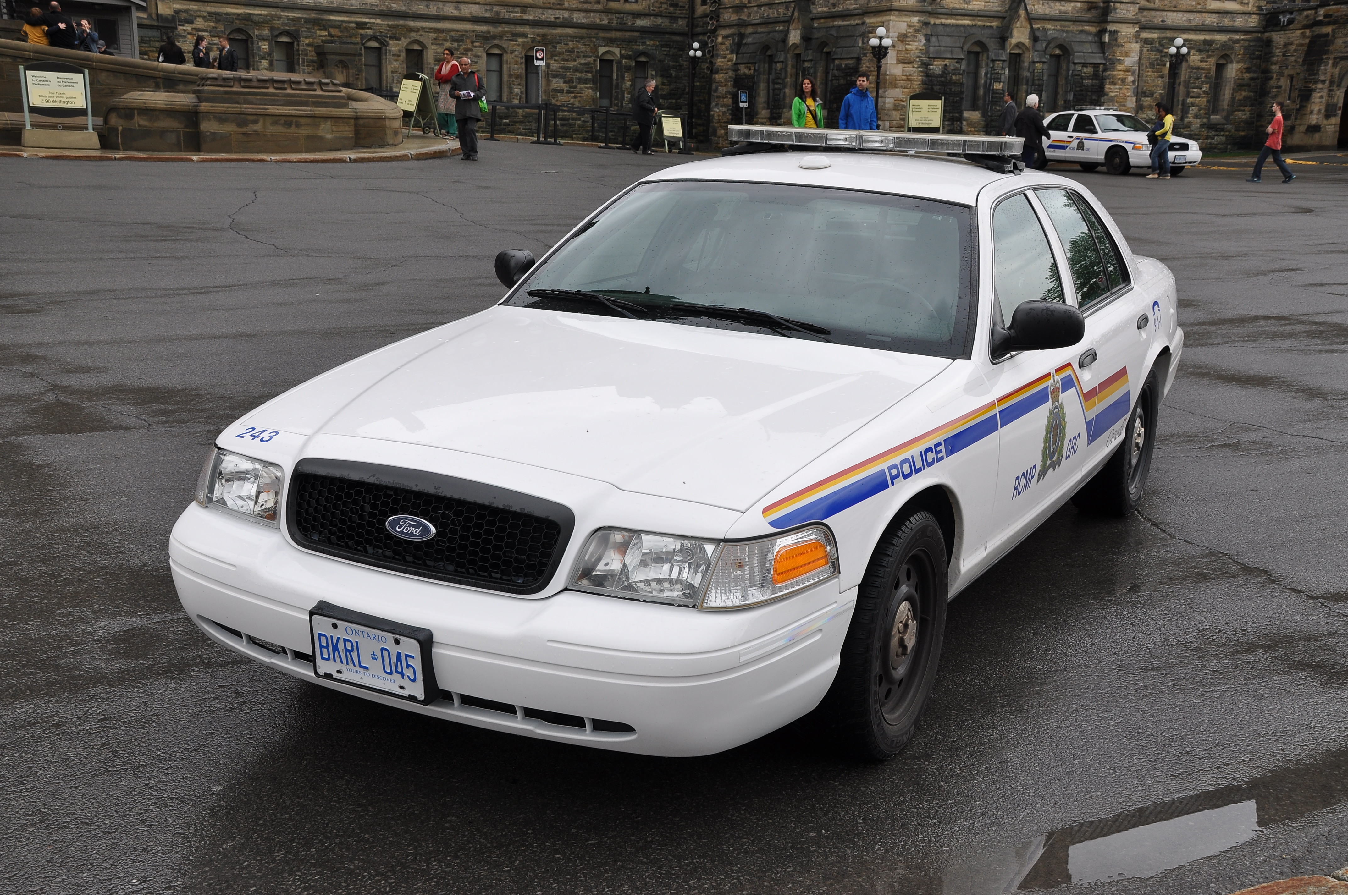 Although the Canadian Parliament buildings are open to the public, at least partially, and tours of the interior are offered (we are about to go on one, see subsequent pictures), this Ford police car and frisking as we enter the building etc. only serve to remind us that we are in a high security environment. Just months earlier, a local lunatic had caused some disturbance inside the building. (Ottawa, Canada, June 2015)